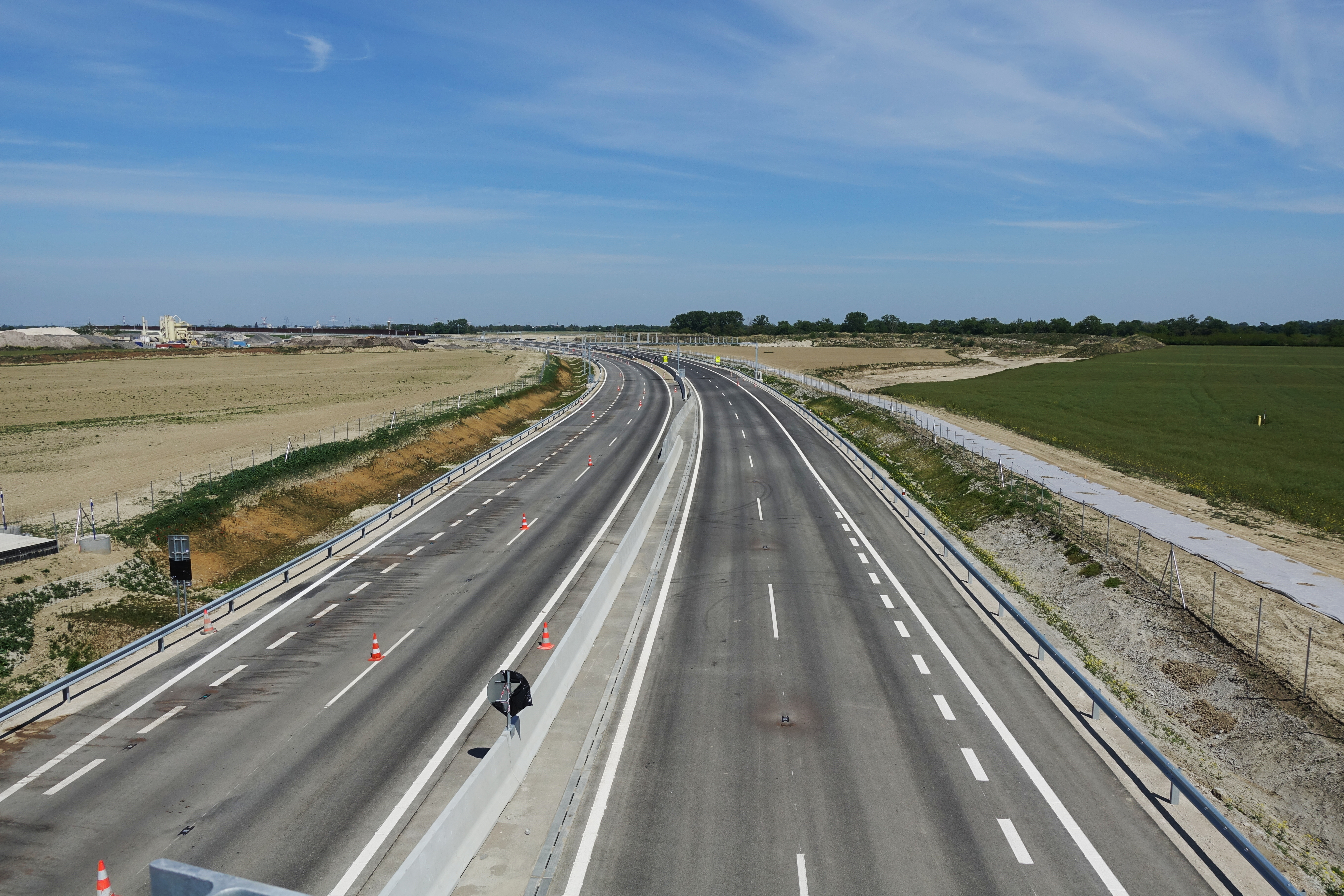 D4 highway - outer bypass of Bratislava, near the D4/R7 Ketelec highway junction under construction (5/2020). East view.